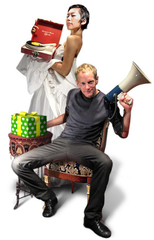 A Publicity Still for John Moran and Saori Tsukada